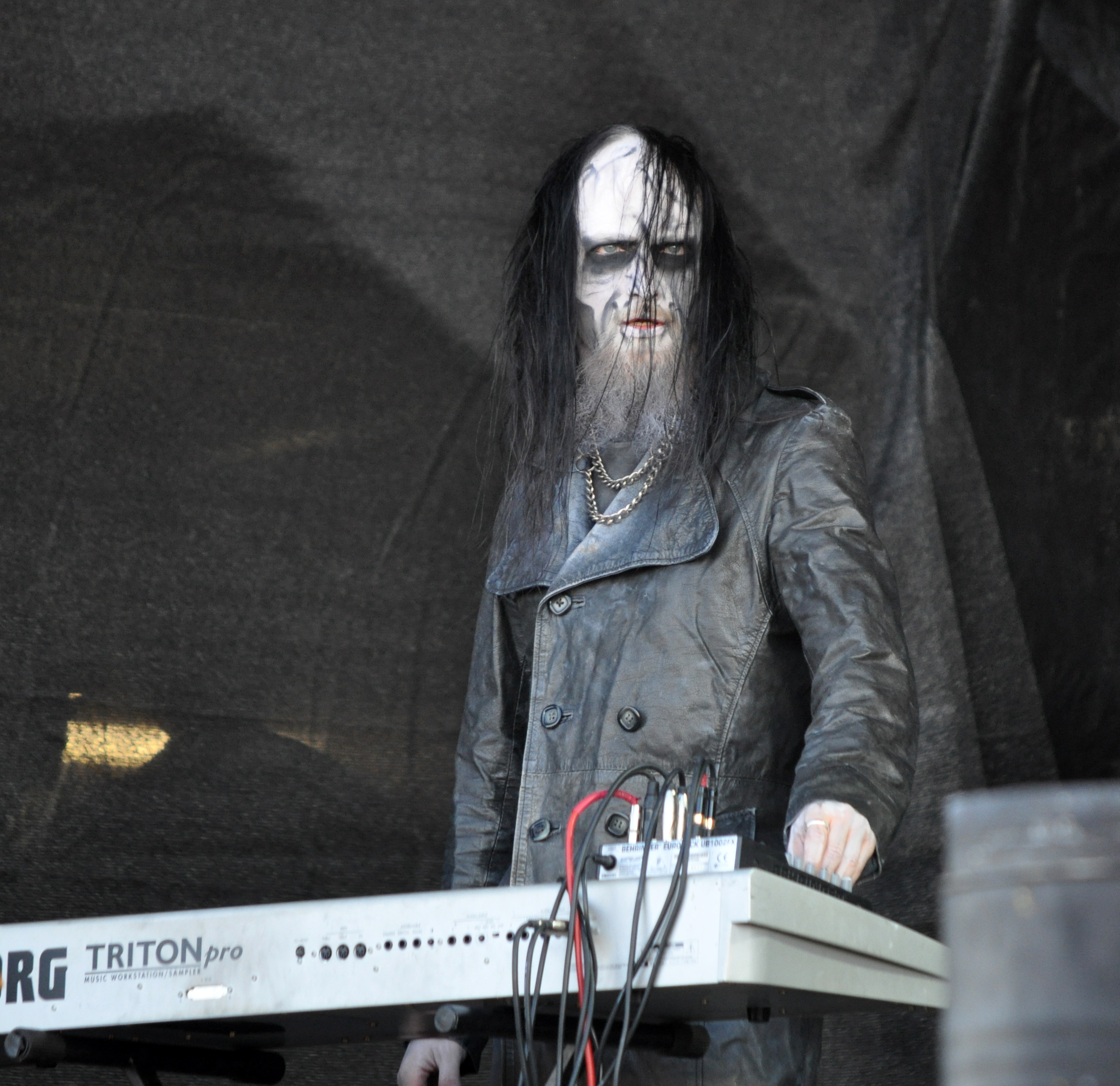 Dark Fortress at Party.San Open Air 2012